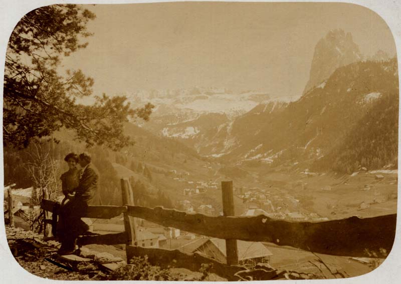 Mur da Cudan in Urtijei